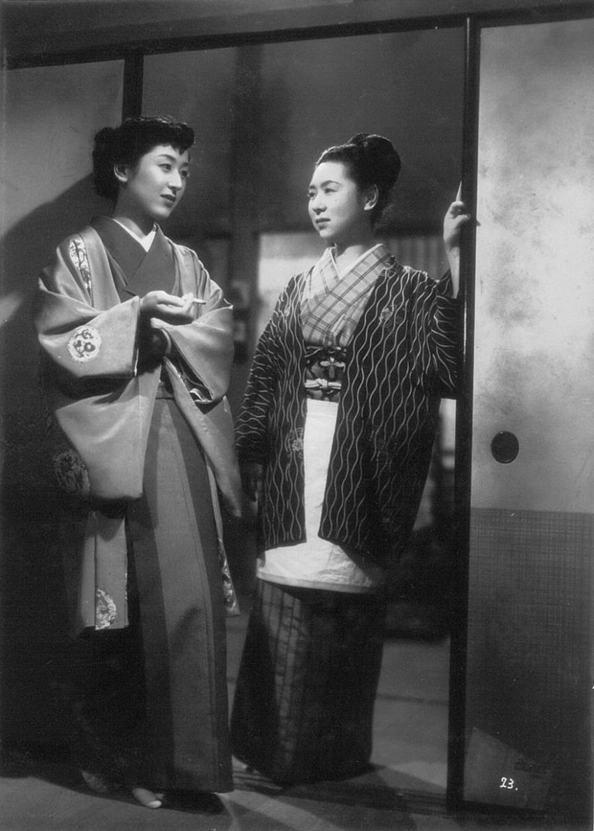 Ranko Hanai and Kinuyo Tanaka in Ginza keshō (1951)